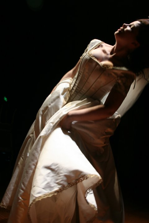 Katherine Cullen